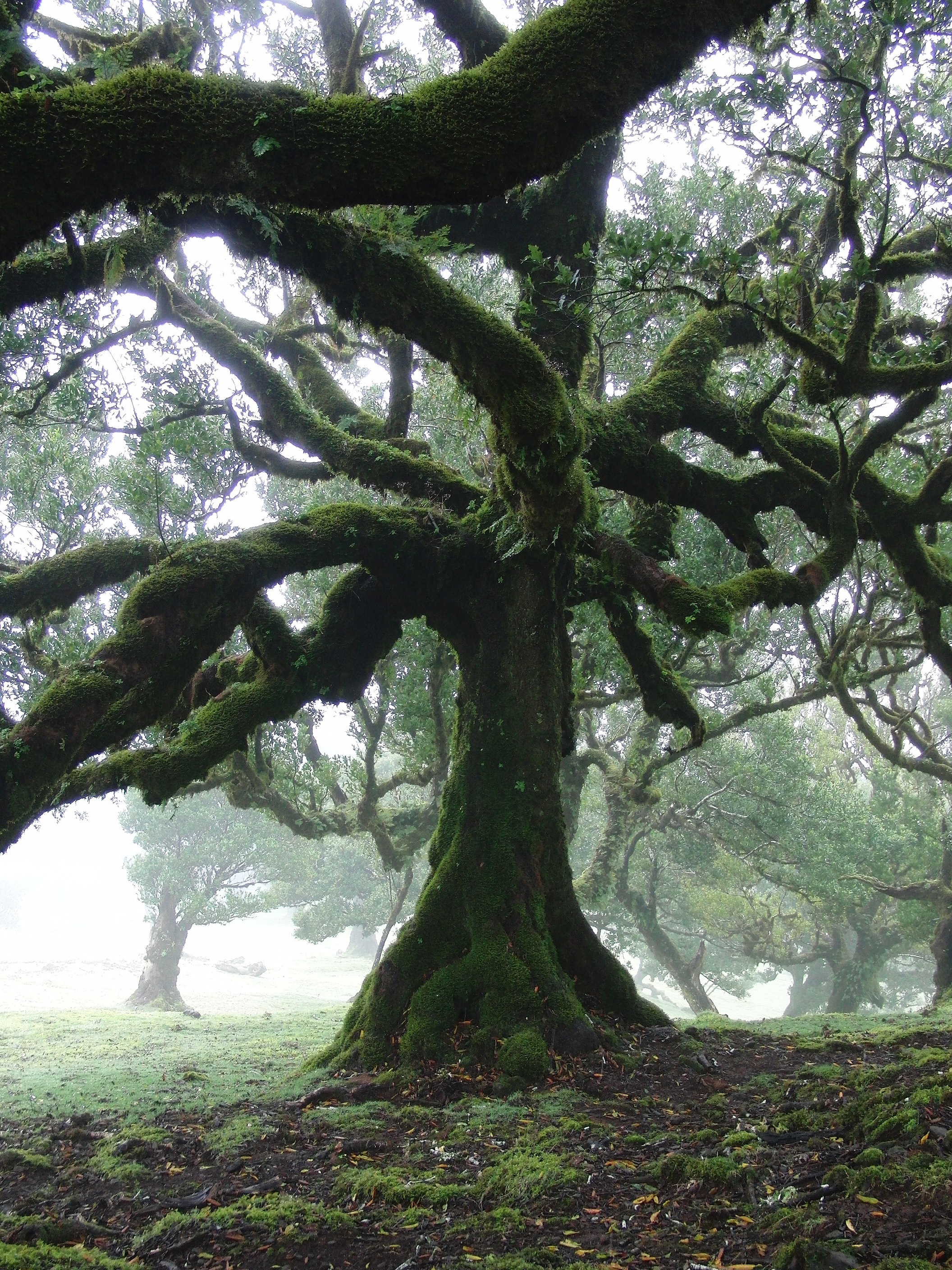 Ocotea foetens in natural relic habitat (Madeira)